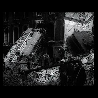 Britain Can Take It [main] A version of LONDON CAN TAKE IT re-edited for exhibition in American cinemas in order to drum up support for Britain at a time when isolationist sentiment was still strong in the USA.